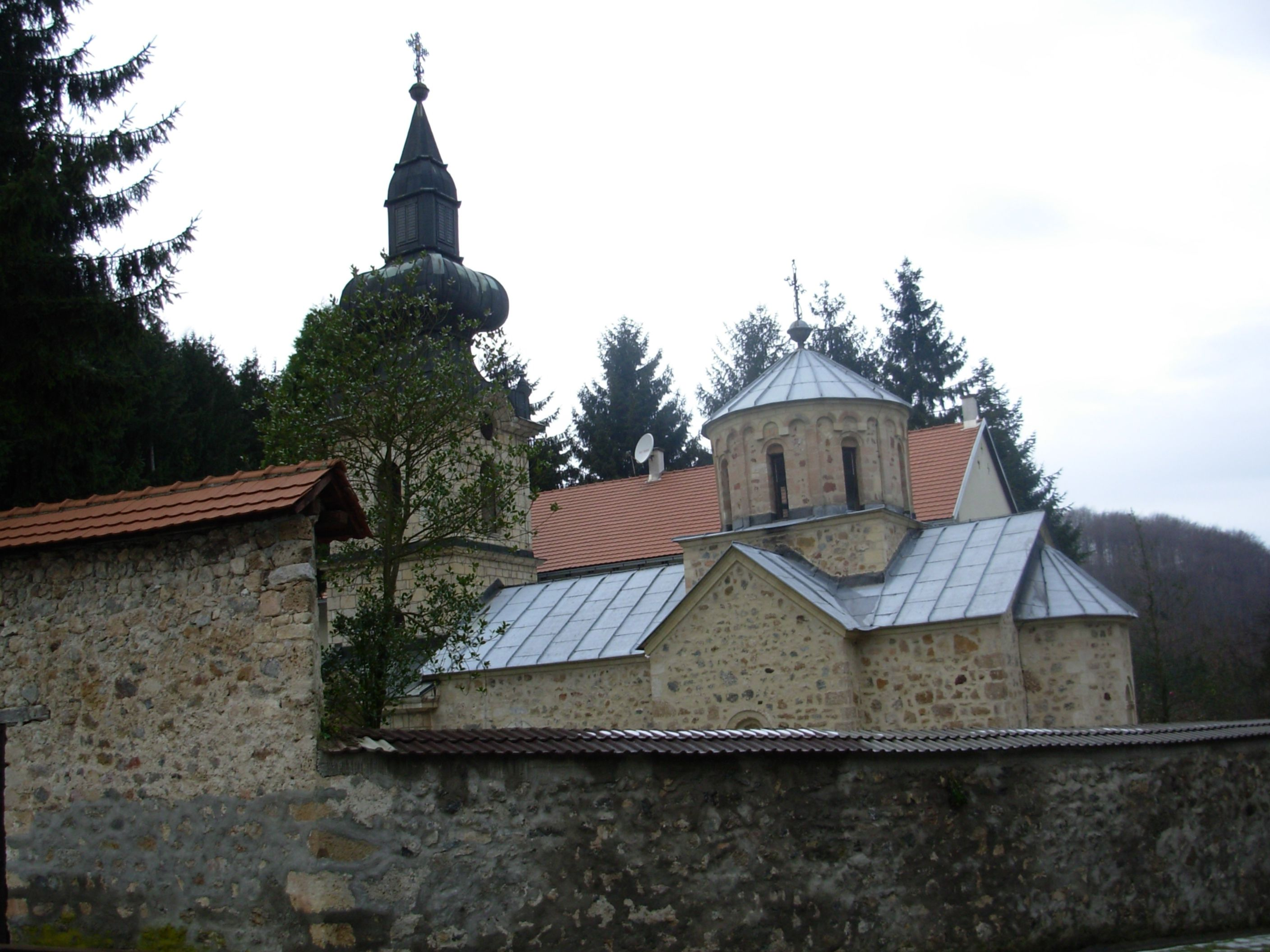 Tronoša monastery near Loznica, Serbia